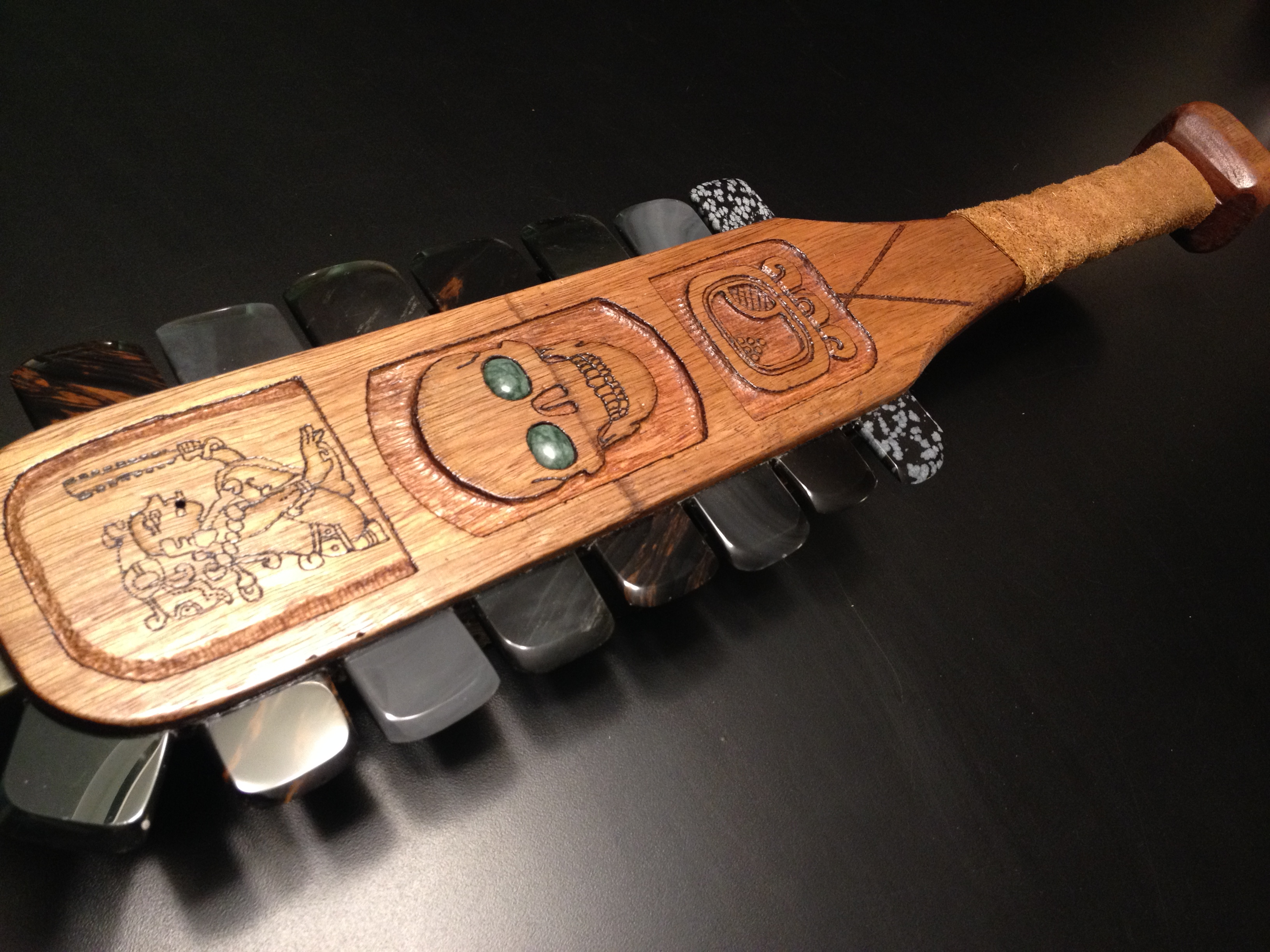 A Modern recreation of a ceremonial macuahuitl made by Shai Azoulai. Photo credit: Niveque Storm